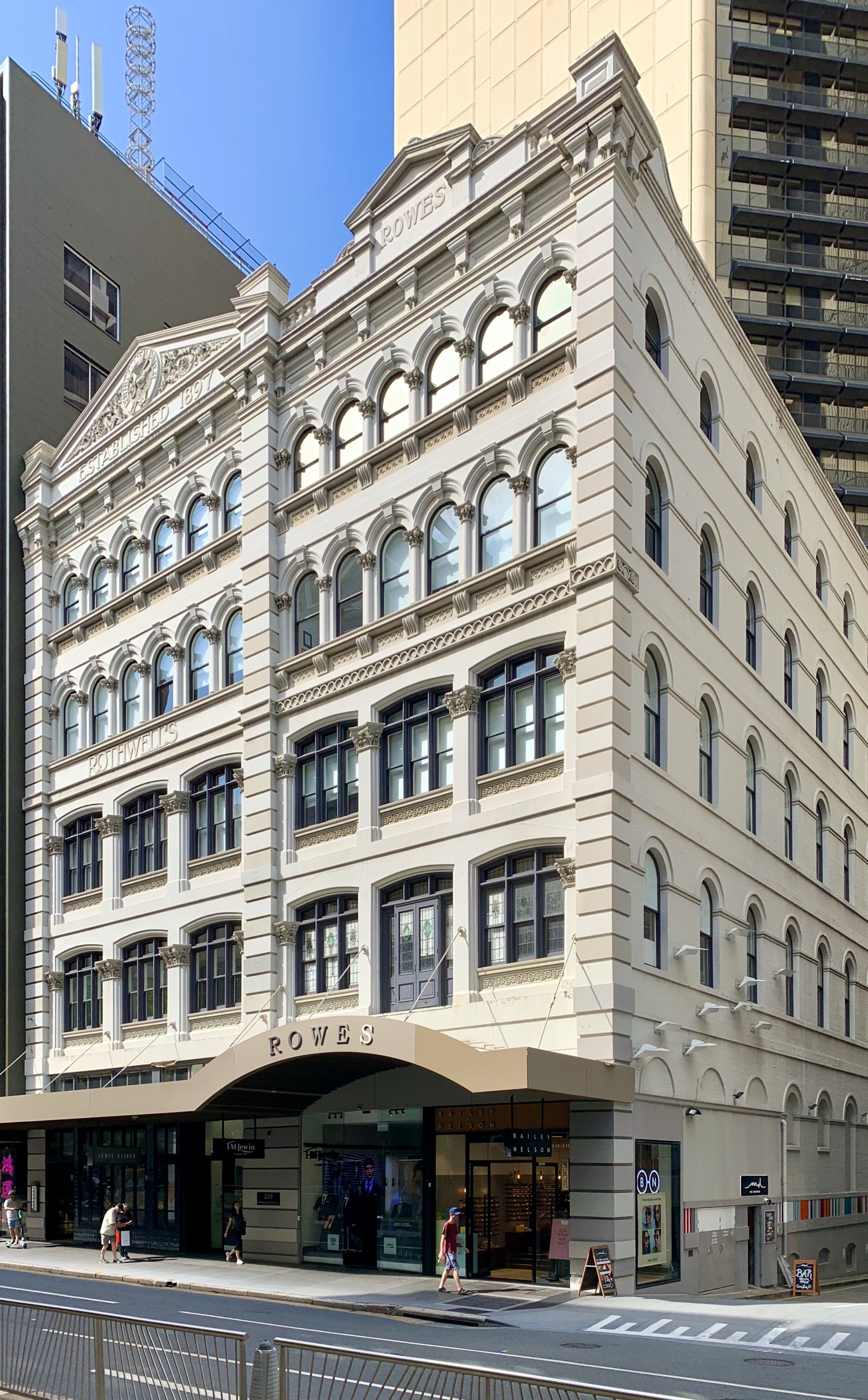 Rothwells Building and Rowes Building at 235 Edward Street, Brisbane Queensland, 2020